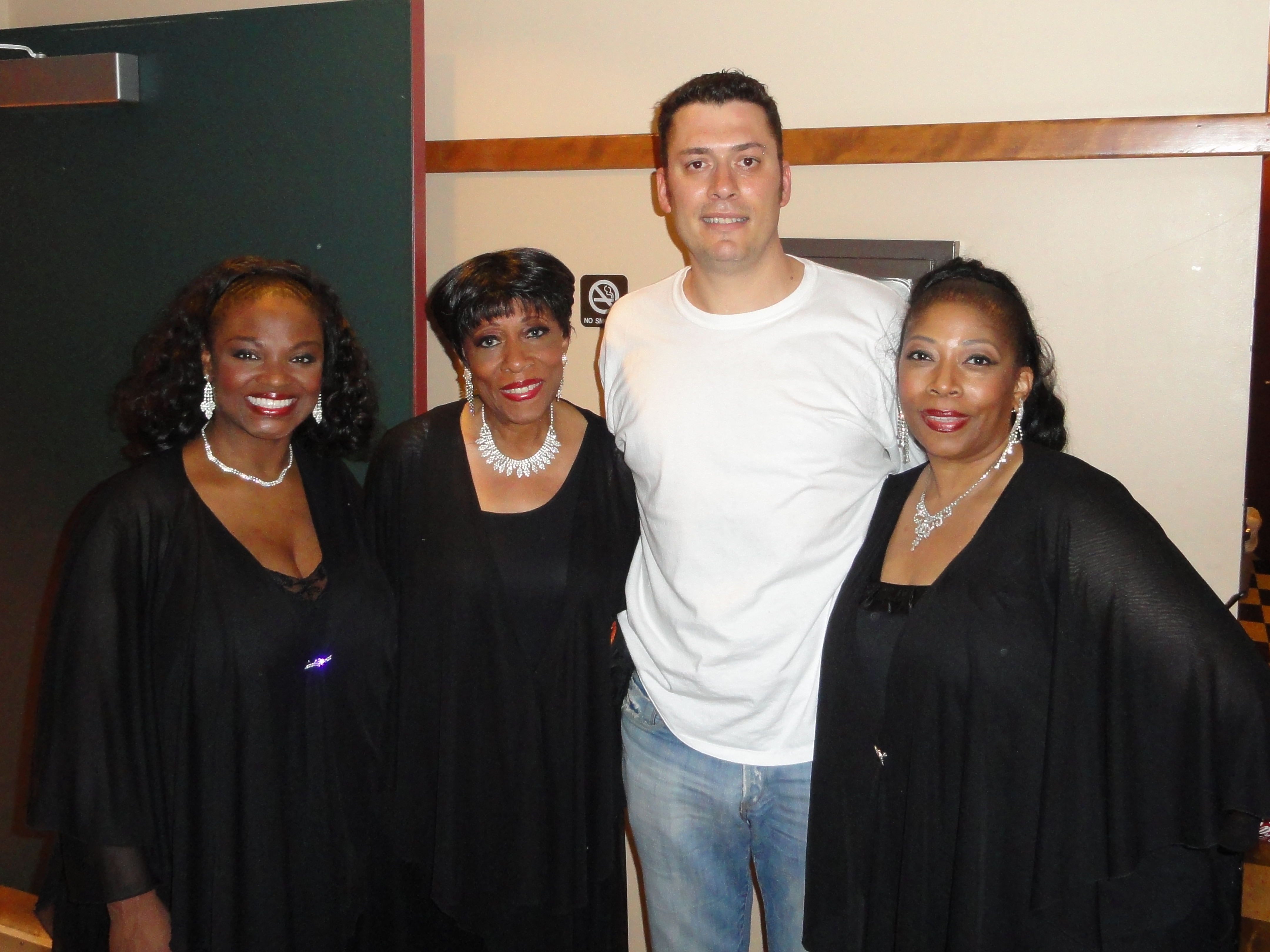 The Chiffons with Joan Carrasco, member of the spanish doo wop band The Earth Angels.